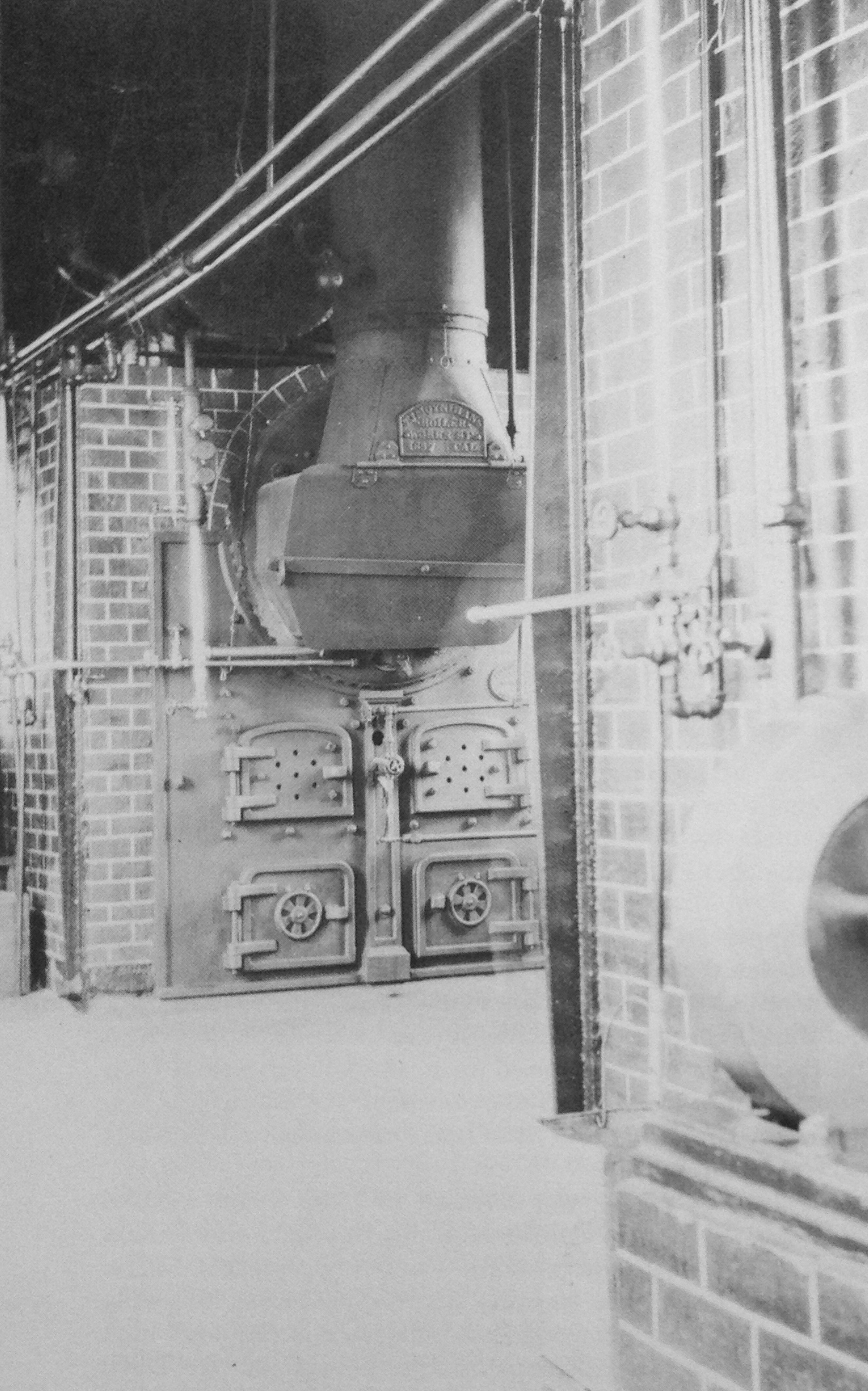 Interrior of the Lime Point fog signal building showing the powerful steam fog whistle equipment. (U.S. Coast Guard)